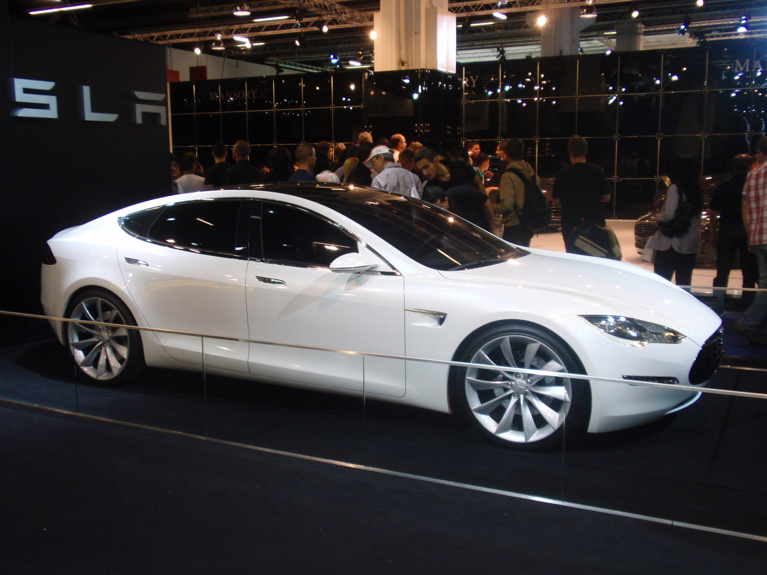 Tesla Model S Prototype at the 2009 Frankfurt Motor Show